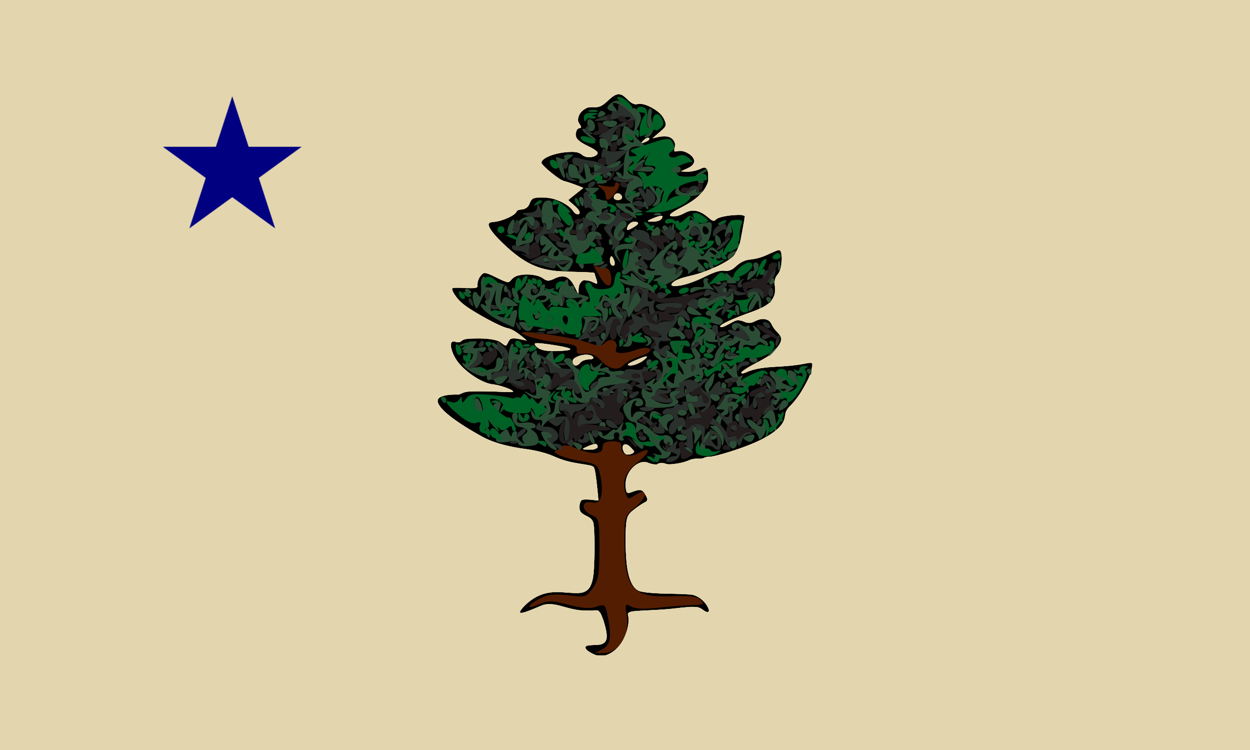 Flag of Maine (1901 to 1909)